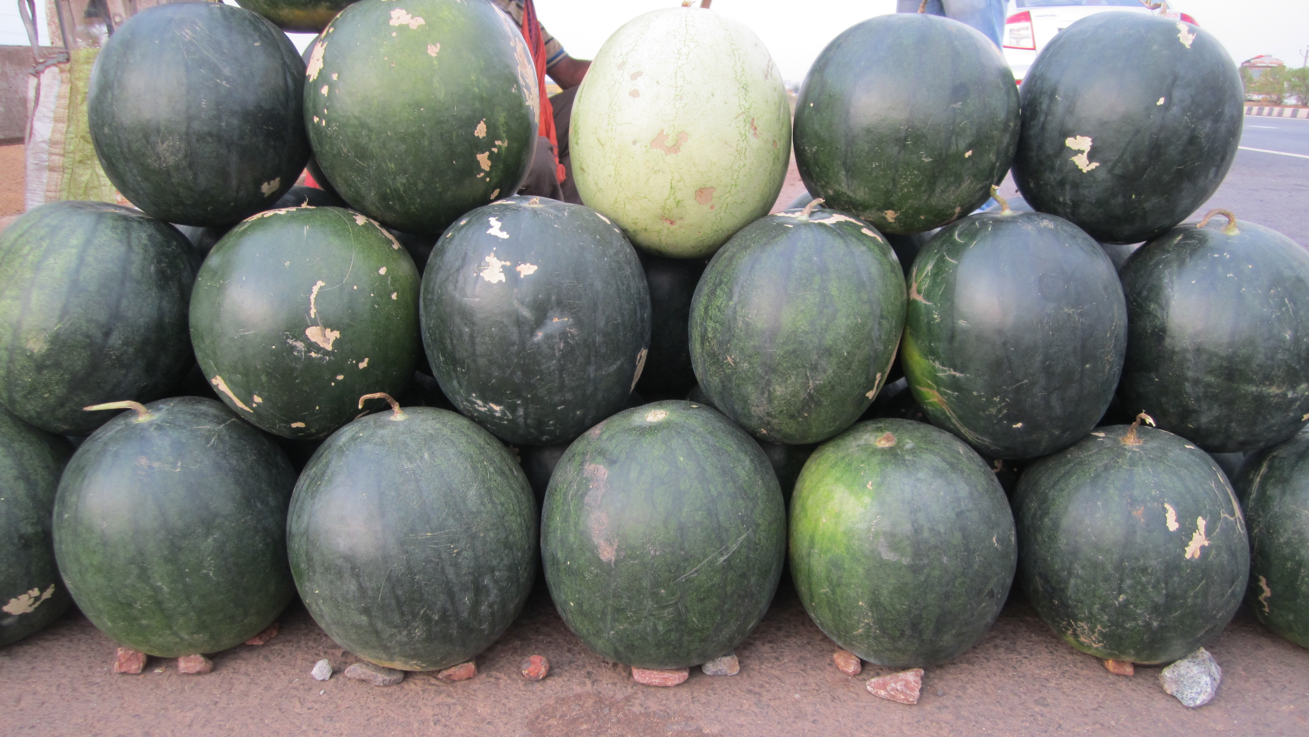 watermelon kept to sale on indian roadଓଡ଼ିଆ: ତରଭୁଜ ବିକିବା ପାଇଁ ରଖାଯାଇଛି